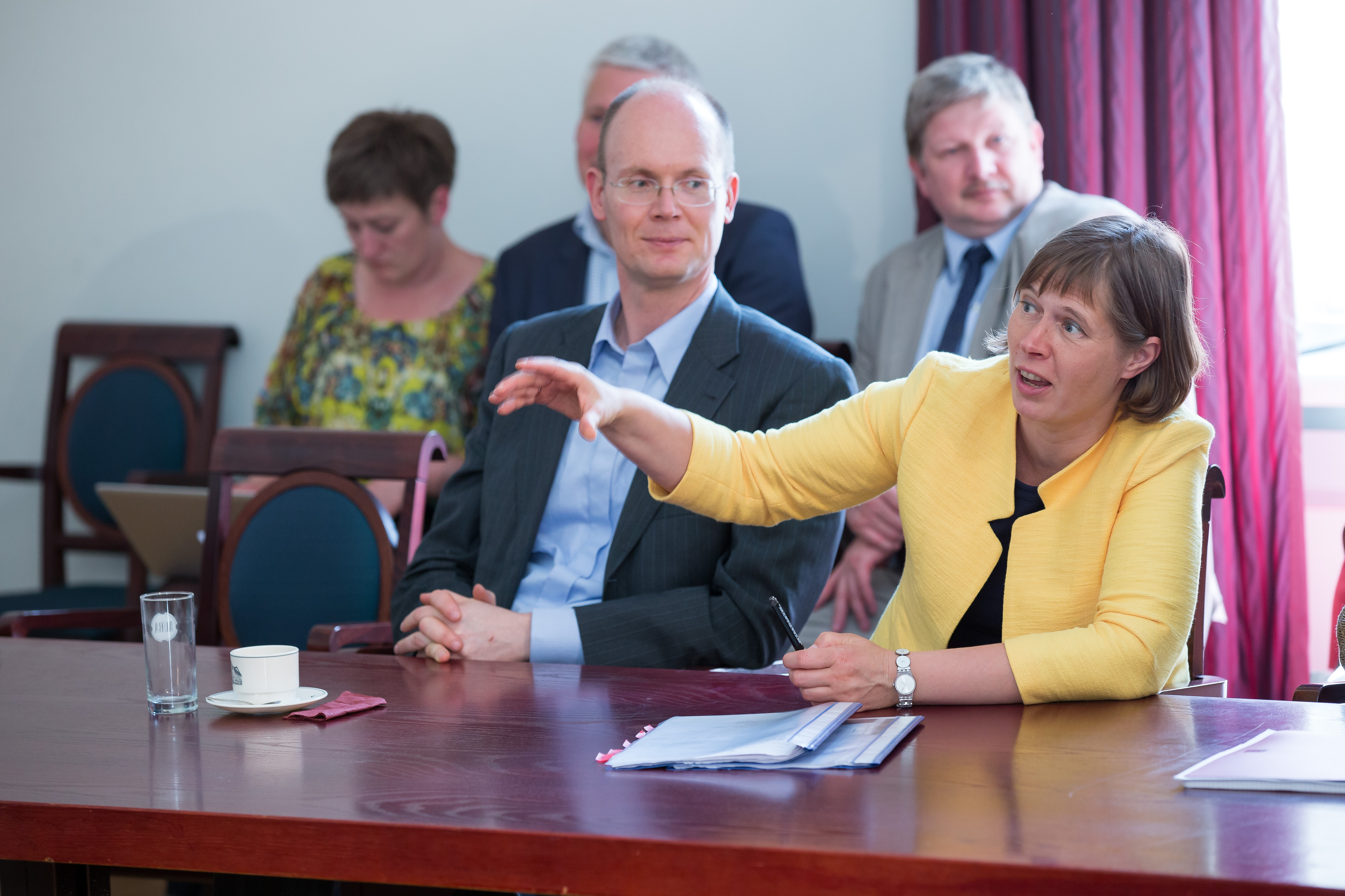 Council of the University of Tartu seminar "Risk management and developing of entrepreneurship inside the university". Aku Sorainen and Kersti Kaljulaid.